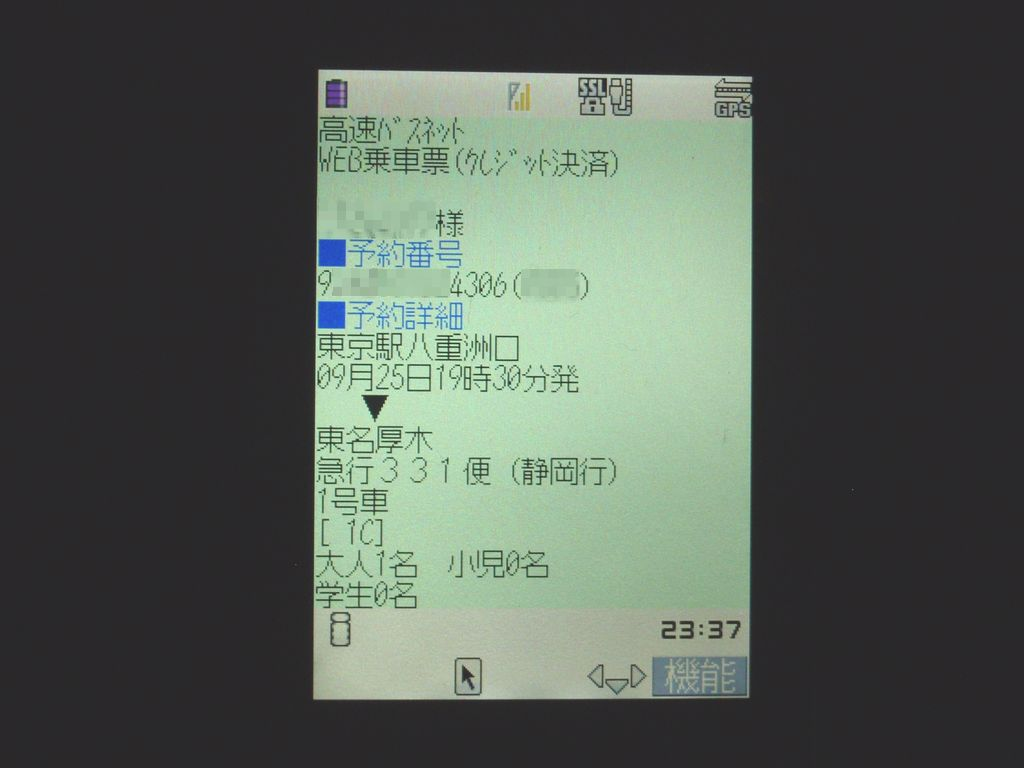 Mobile ticket of JR Highway Bus